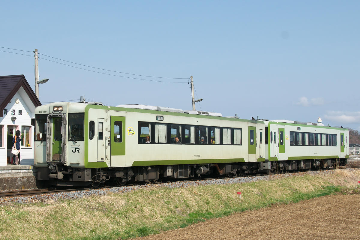 Two JR East KiHa 110-100 DMU cars (led by KiHa 110-119) at Aonuma Station on the Koumi Line